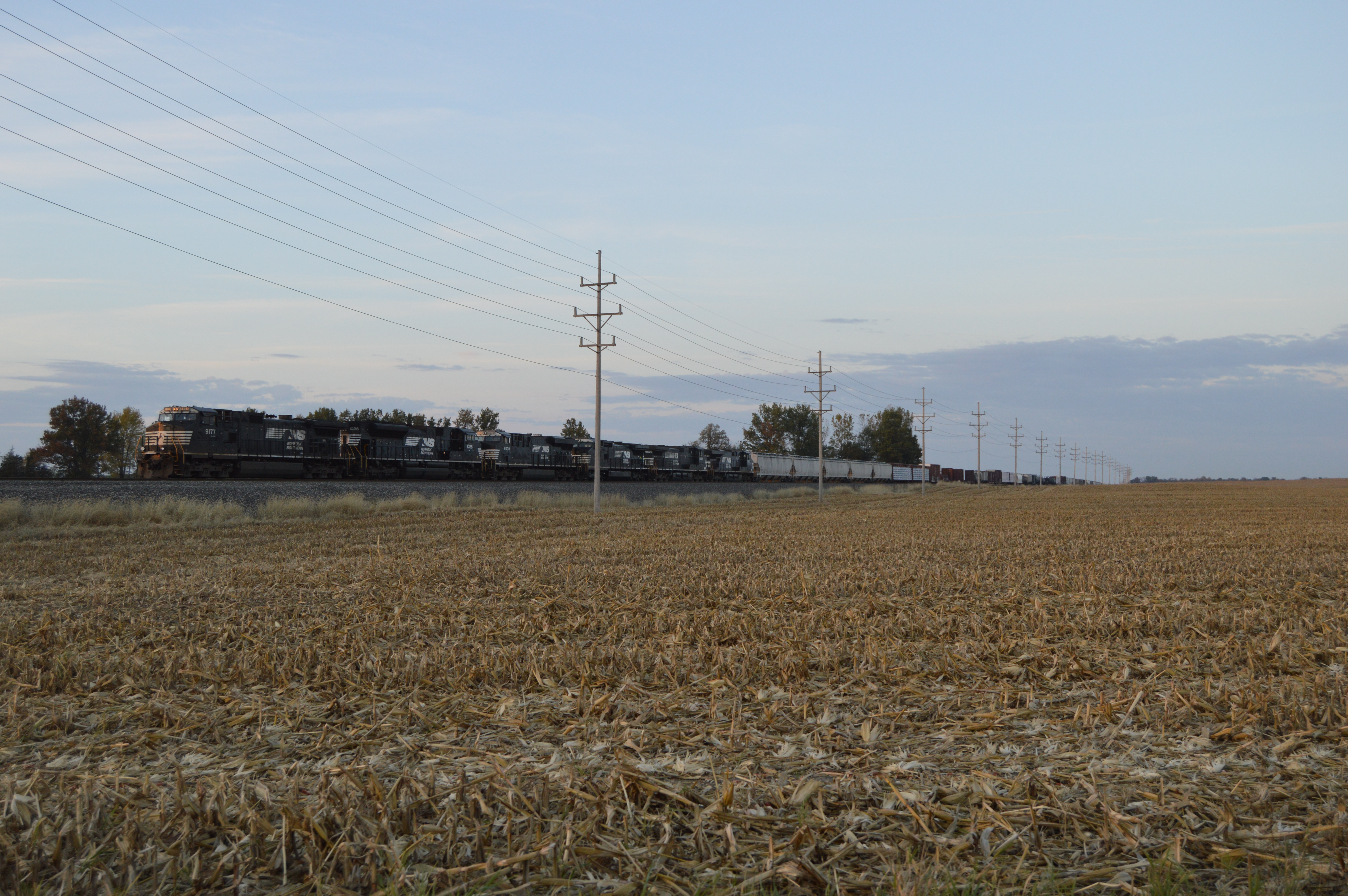 Looking northward from State Route 103 over a stubble field and rail line just north of the village of Chatfield in Chatfield Township, Crawford County, Ohio, United States. Engine numbers for the Norfolk Southern train are 9177, 1028, 8030, [number obscured], 9629, and perhaps 7543.